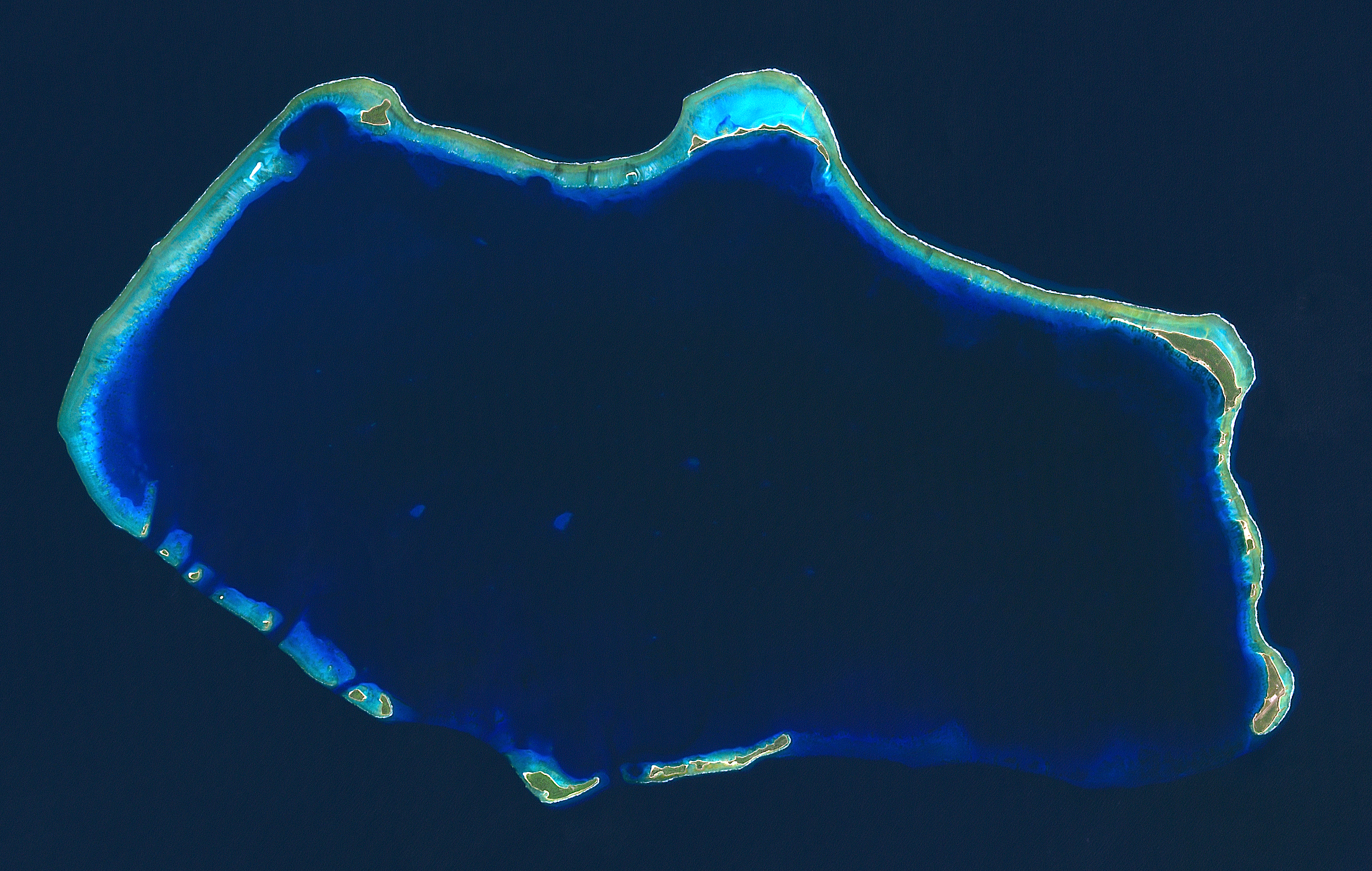 Composite "true color" multispectral satellite image of Bikini Atoll, Marshall Islands. NASA Landsat 7 ETM+ bands used were 3 (red), 2 (green) and 1 (blue), and the image was pan-sharpened to 15m resolution. Imagery courtesy of NASA/USGS.